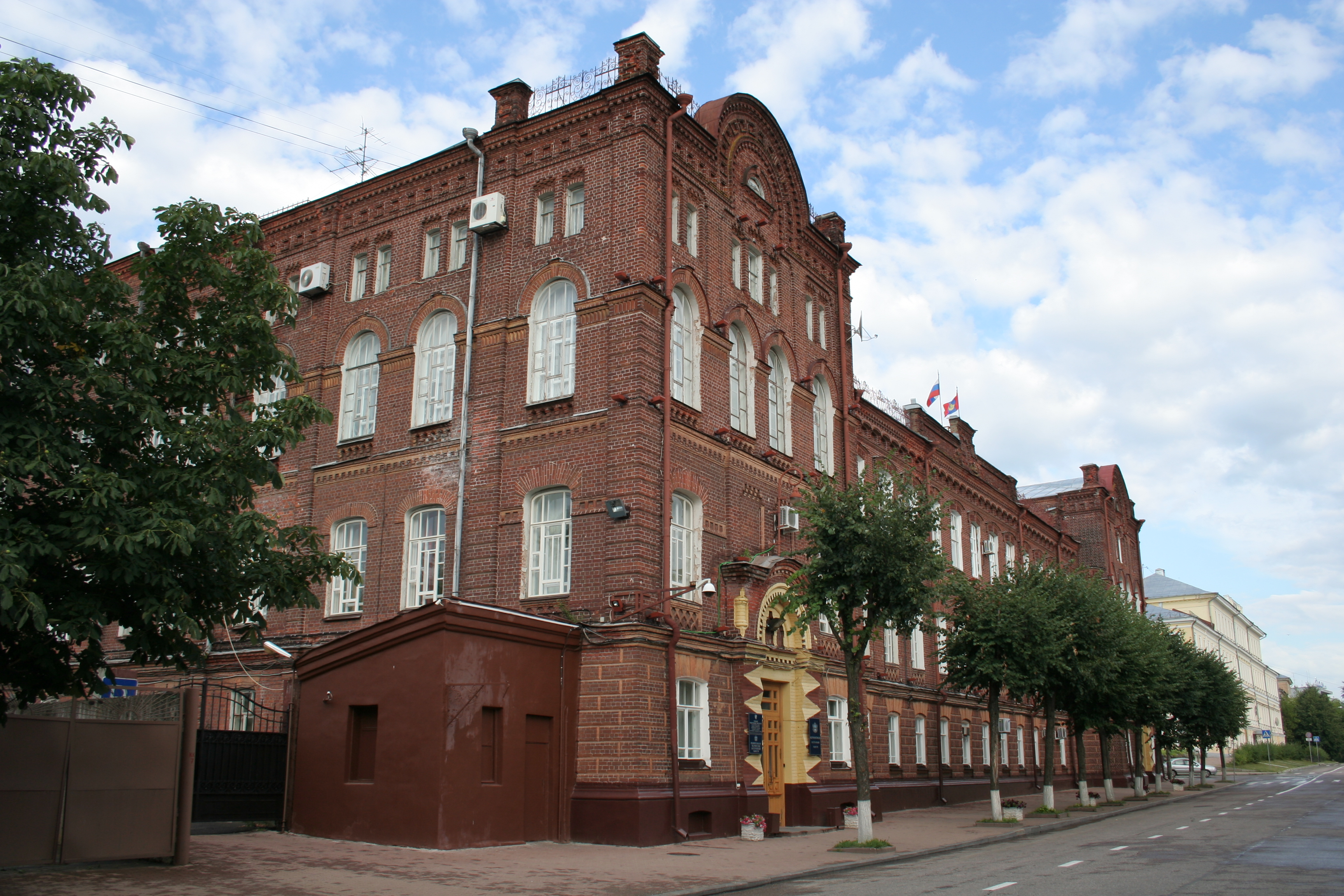 House of the Oblast Government in Kostroma, Russia.